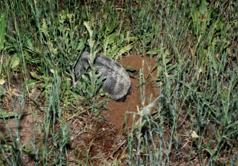 The nest of Emys orbicularis from Nature resevation wiki:Tajba near wiki:Streda nad Bodrogom in east Slovakia